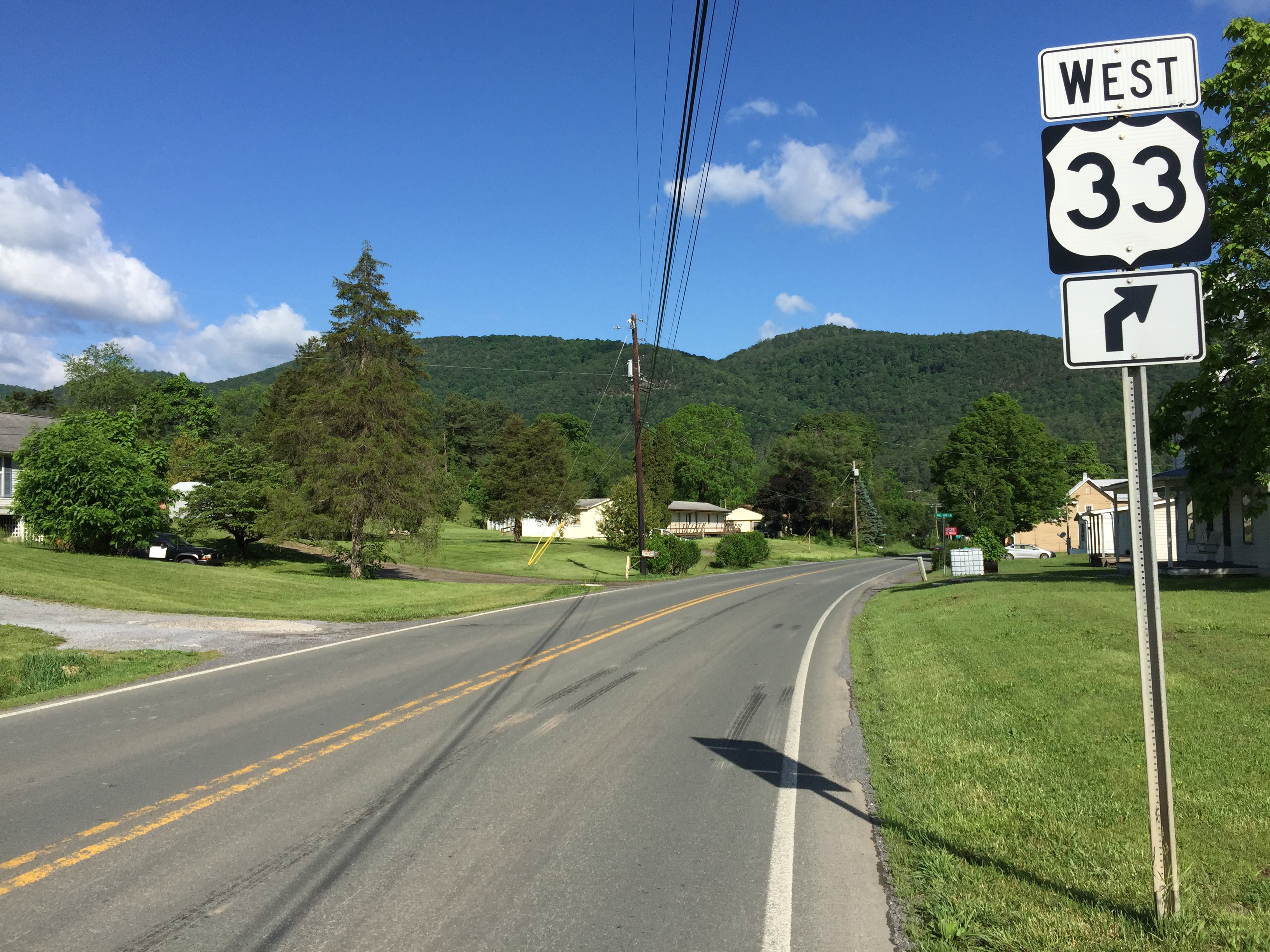 View west along U.S. Route 33 (Blue Gray Trail) near Nilhor Lane in Brandywine, Pendleton County, West Virginia